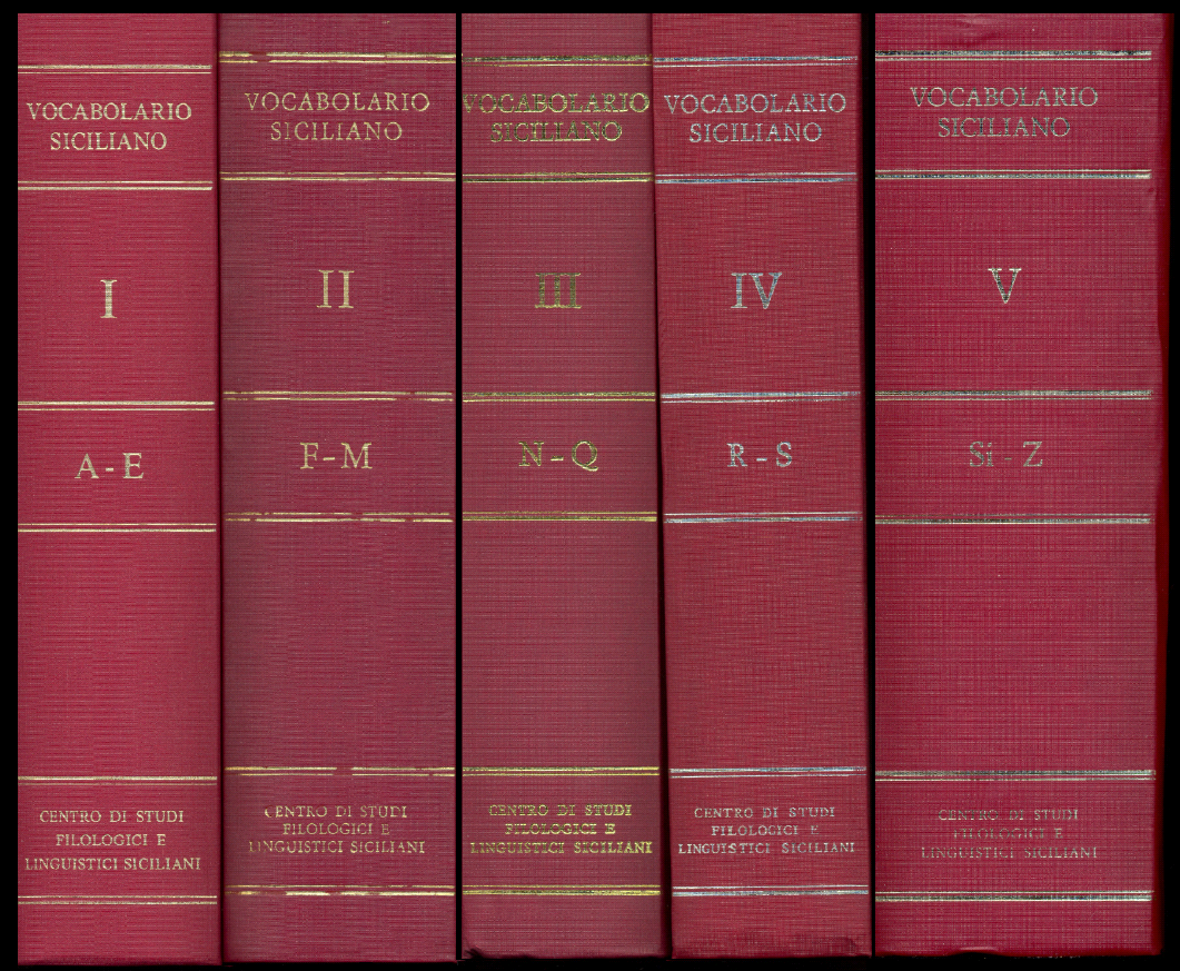 The 5 volumes of Vocabolario siciliano by PiccittoSicilianu: Li cincu vulumi dû Vocabolario siciliano / Vuccabbulariu sicilianu